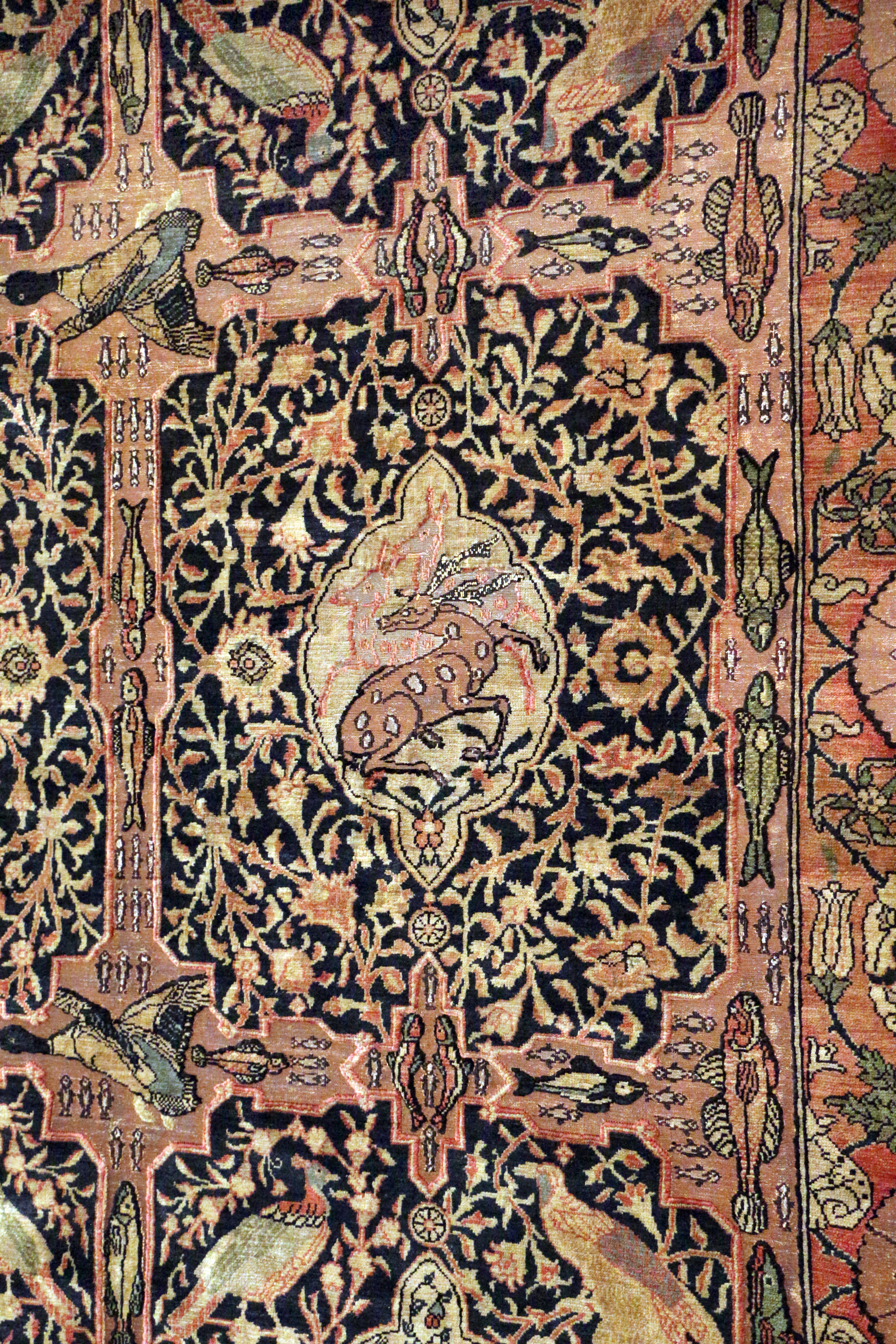 Rugs and carpets in the Calouste Gulbenkian Museum